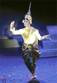 Chitresh Das and Jason Samuels Smith perform India Jazz Suites.